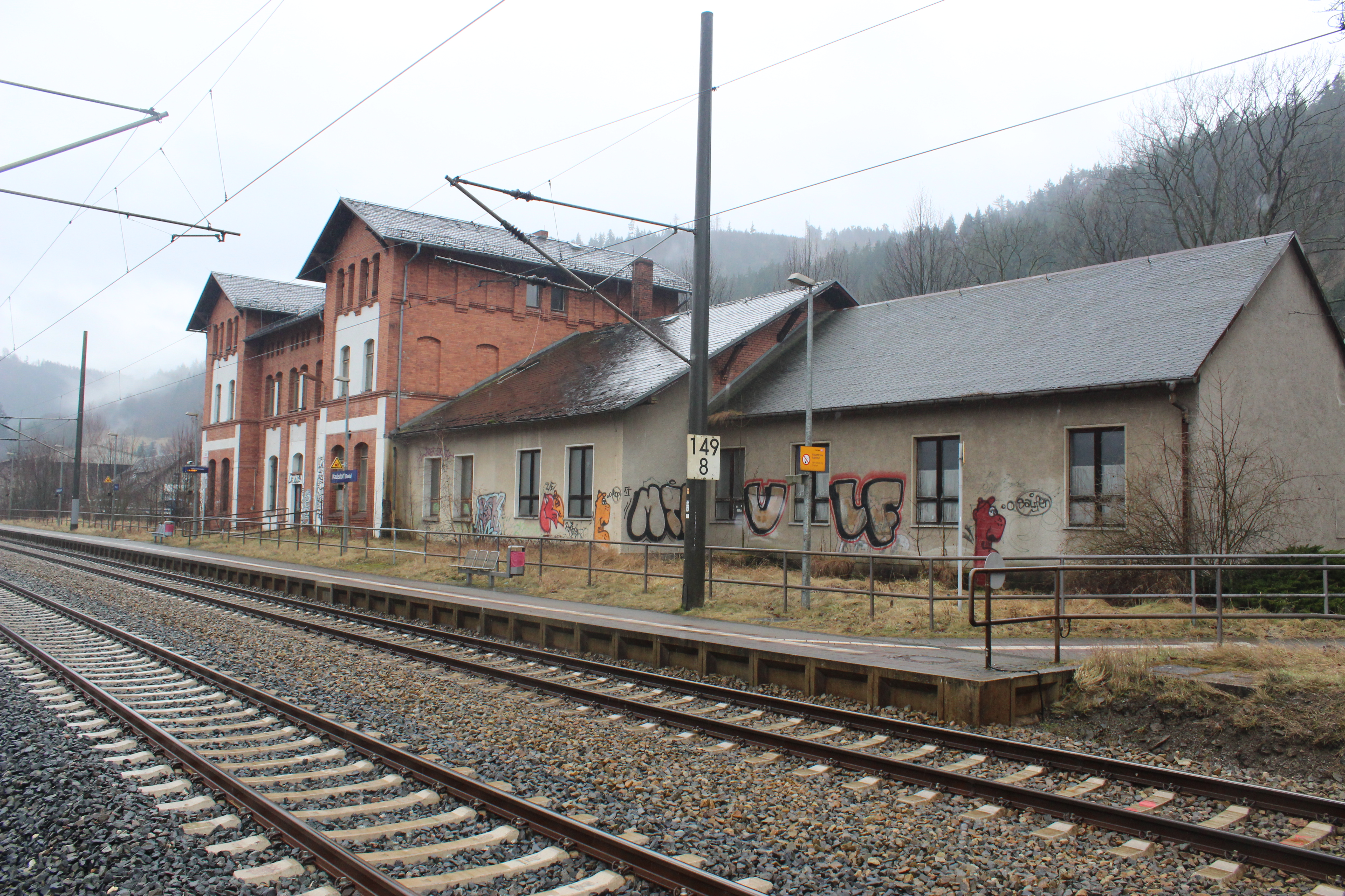 train station Kaulsdorf (Saale)